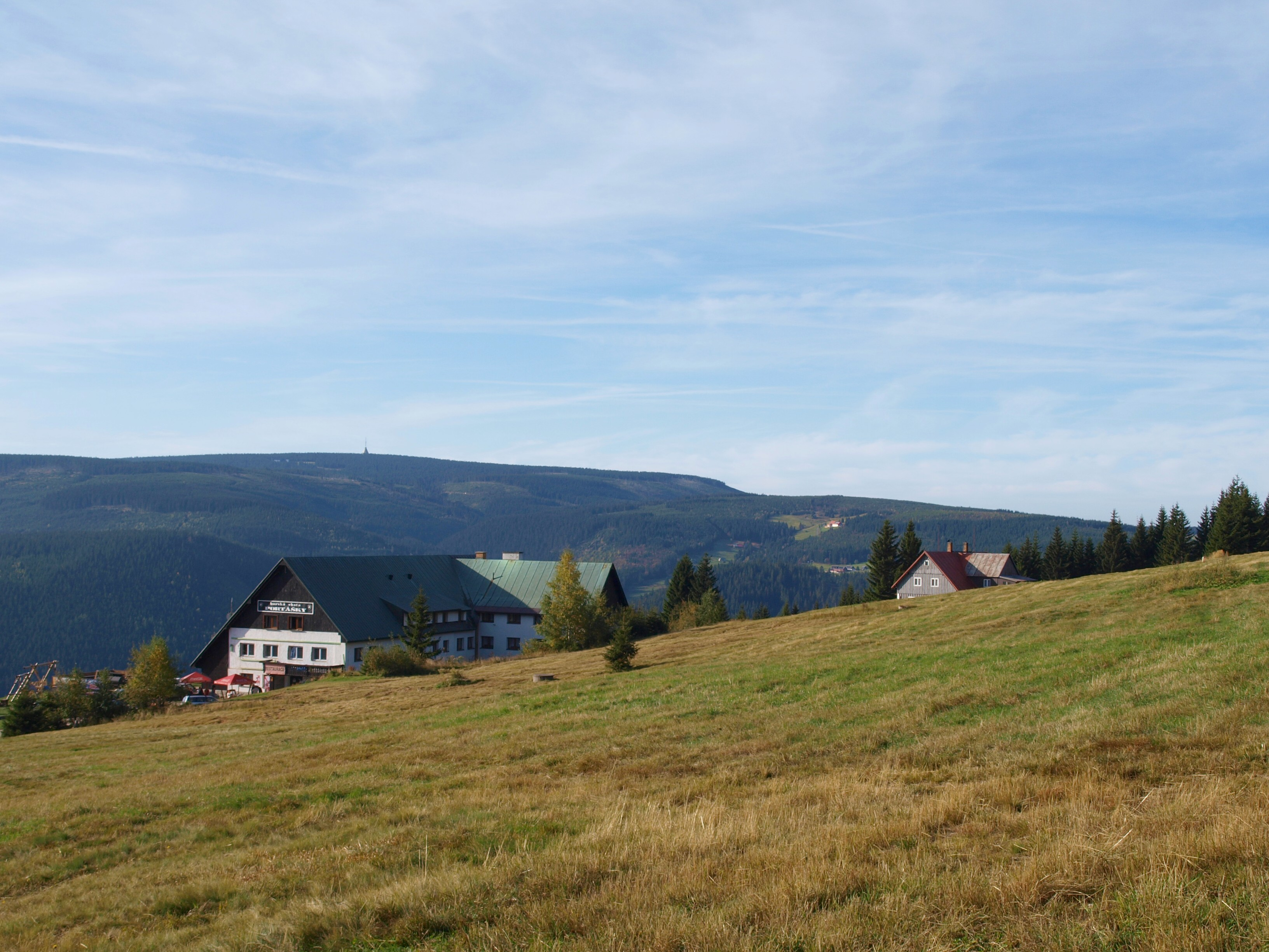 Portášovy boudy, Krkonoše